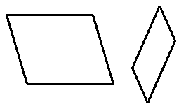 A diagram of a rhomboid from English Wikipedia